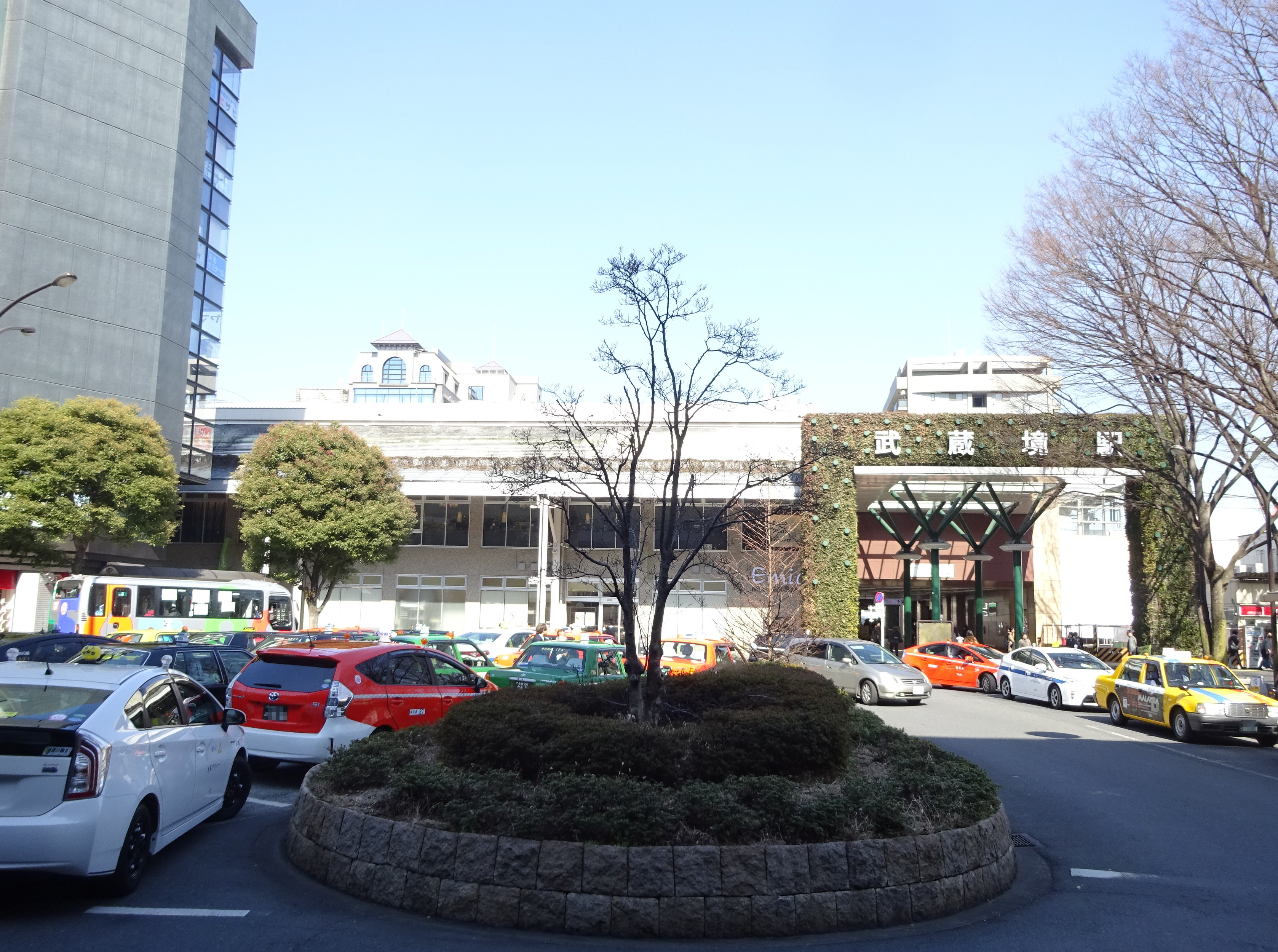 South Entrance of Musashi-Sakai Station